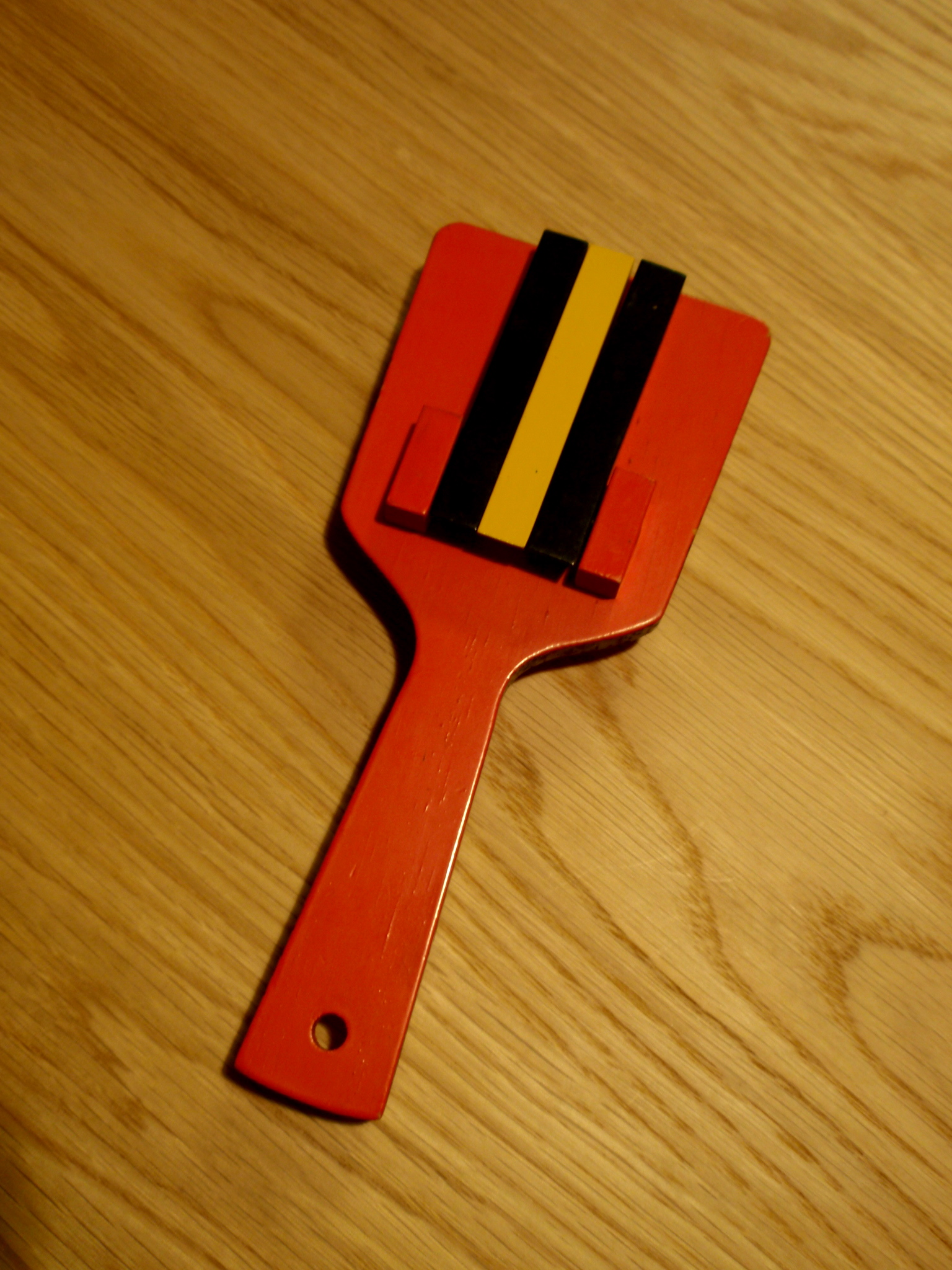 Naruko is a wooden instrument.